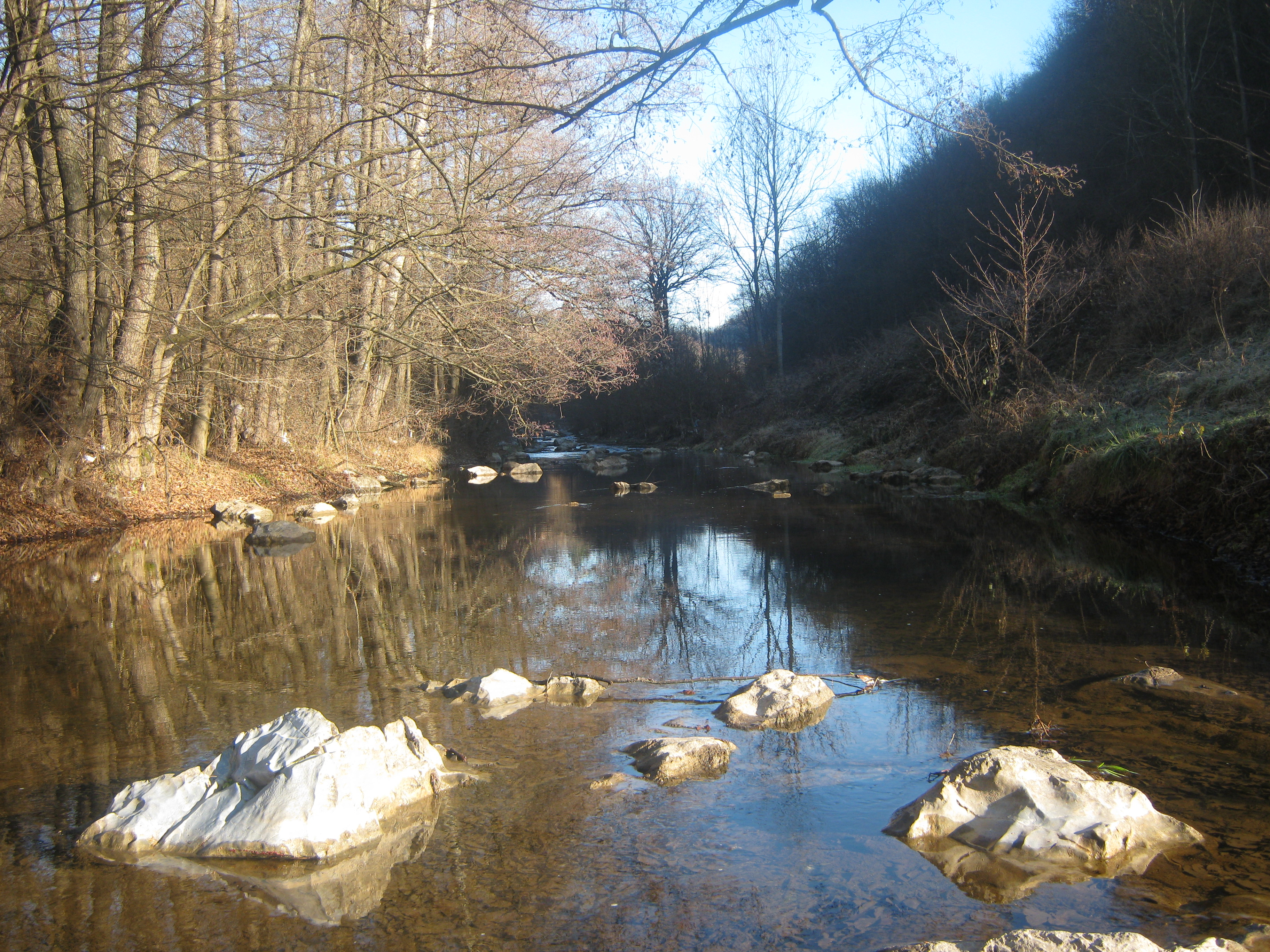 River Dičina in Šarani (Gornji Milanovac).